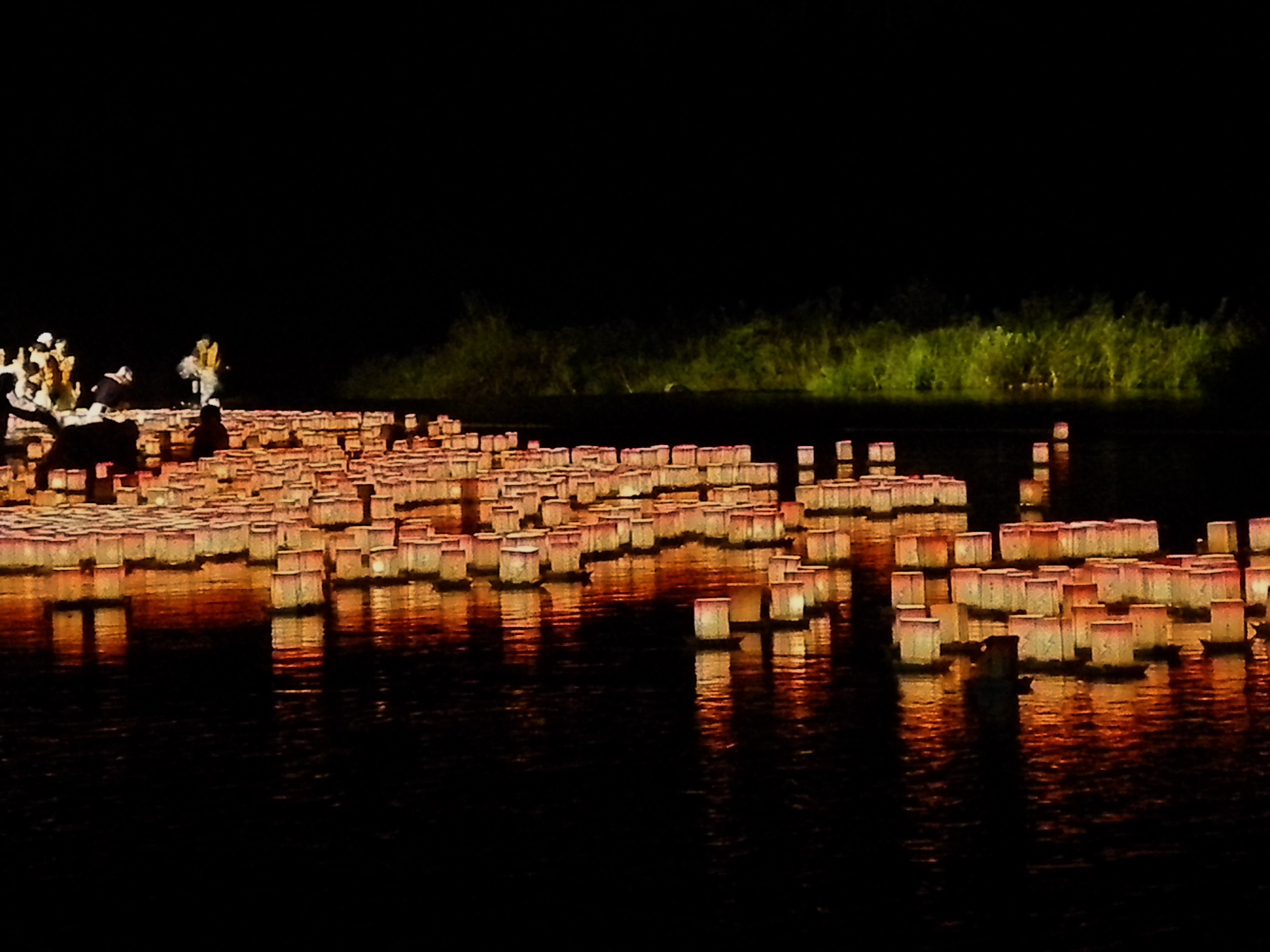 Floating lanterns of Eiheiji temple